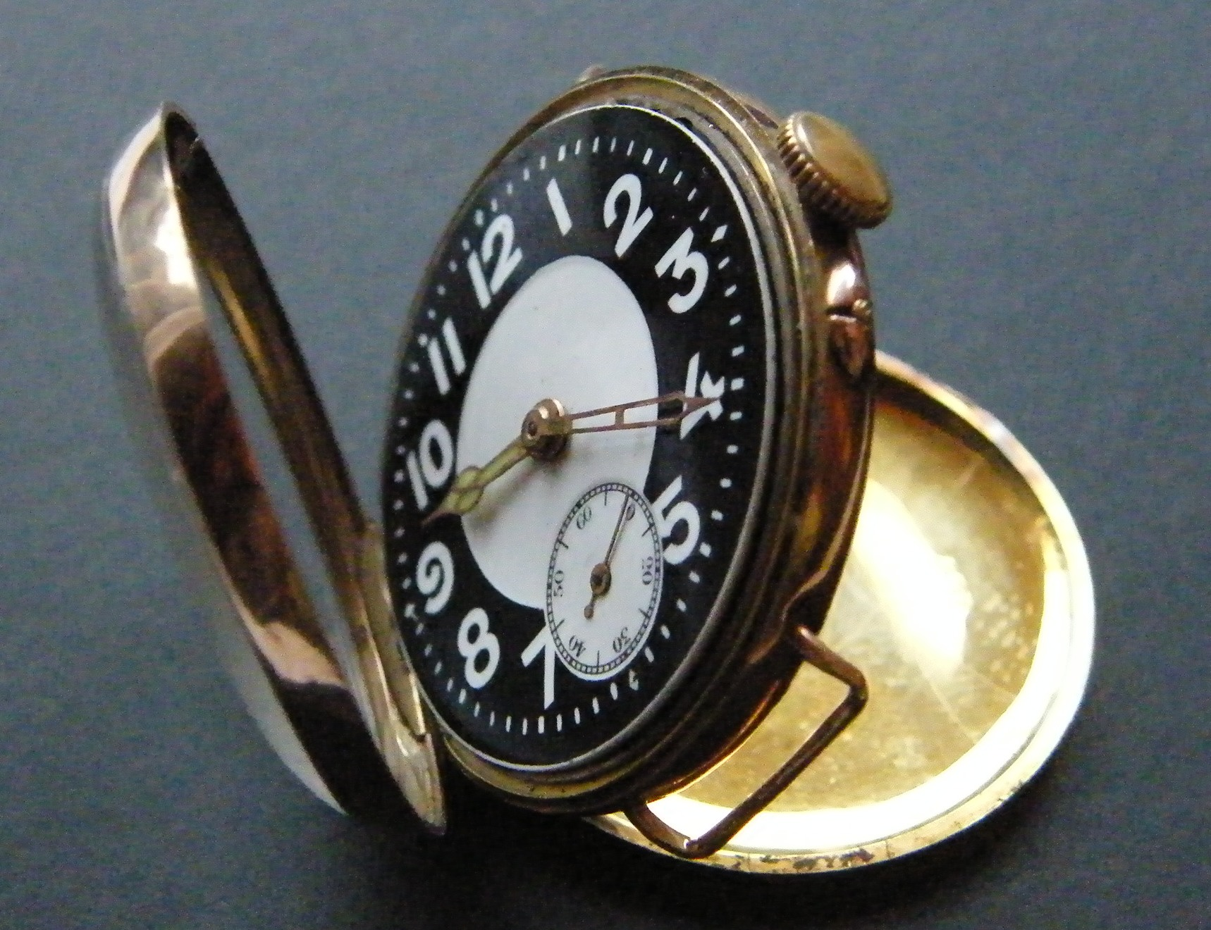 Trench watch (wristlet). The type of watch used by soldiers and aviators during the World War I (WWI) - a transitional design between pocket watches and wrist watches, has features of both.